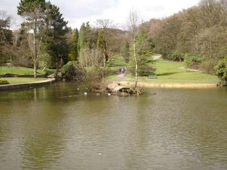 I took the photograph in Howard Park in winter in Glossop